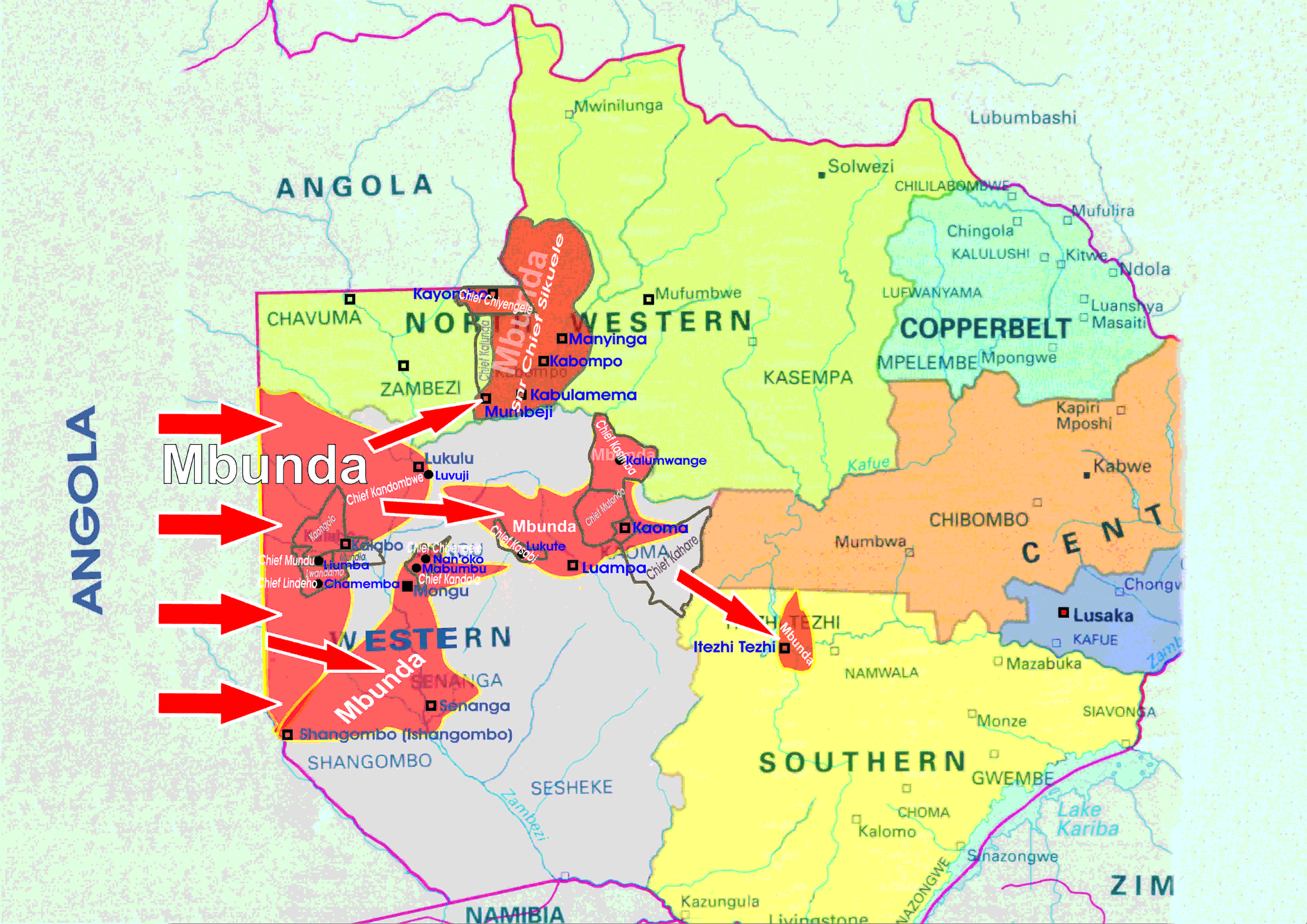 Map showing the migration of the Mbunda groups into the now Zambia.